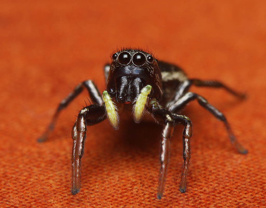 Jumping spider - Heliophanus sp.